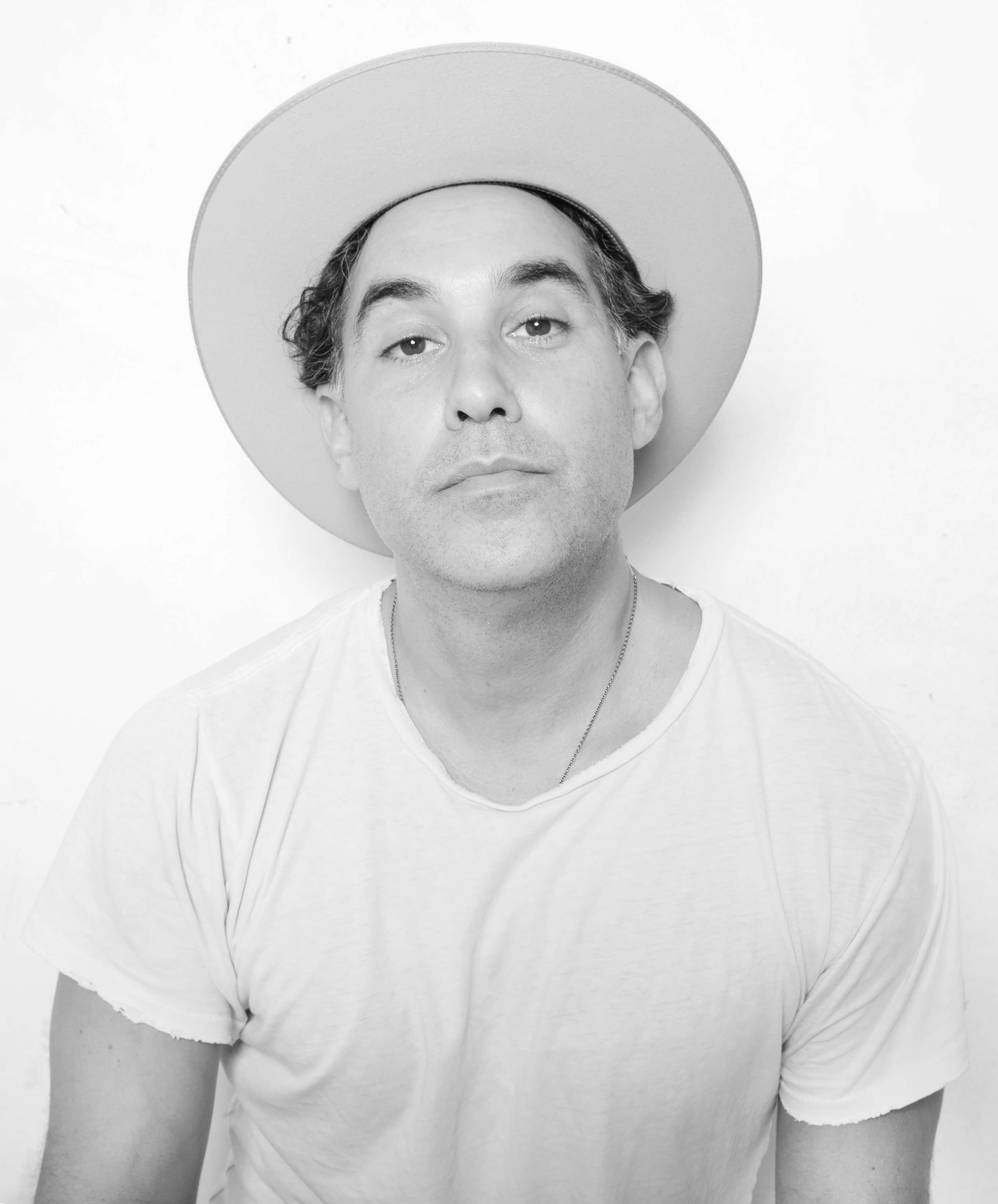 This image is for the Joshua Radin's Wikipedia page. The owner of this photo "Jen Rosenstein" has granted permission for this use.